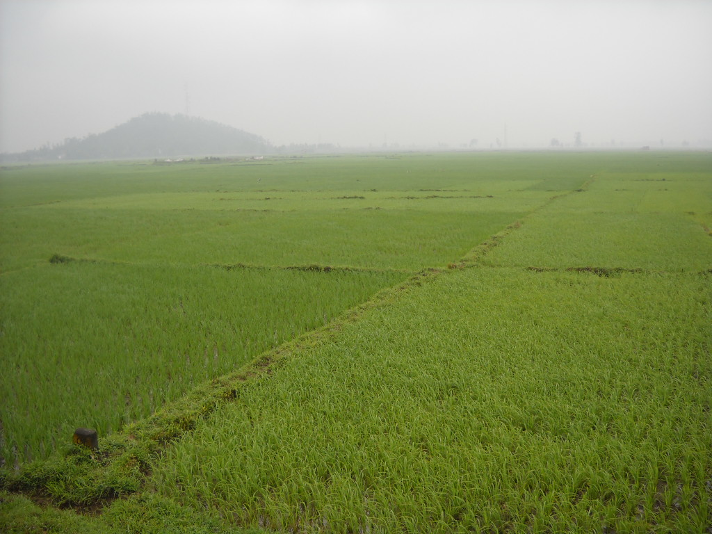 Field in Hong Linh Province, Vietnam.